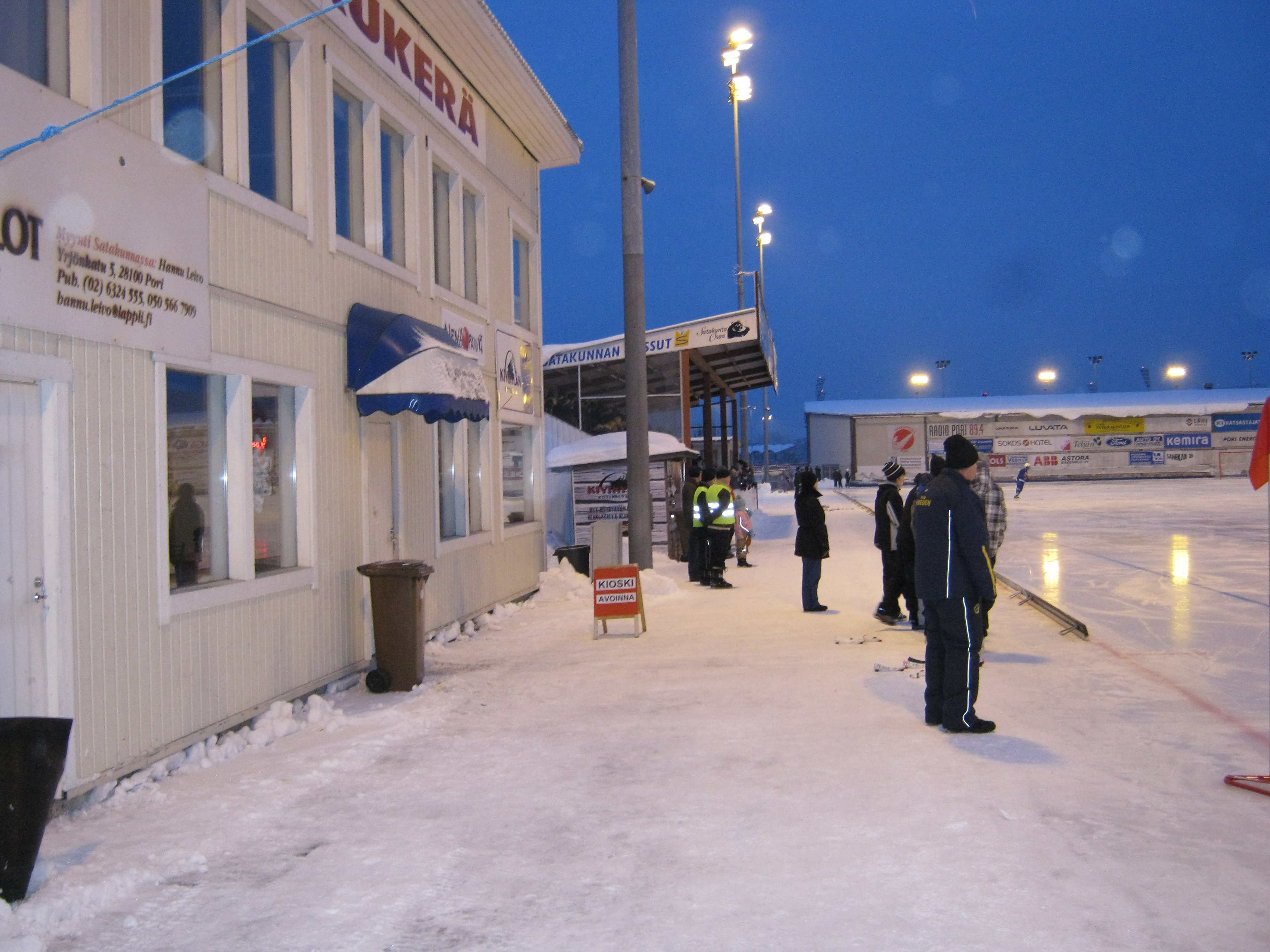 Narukerä bandy team, Pori Finland.